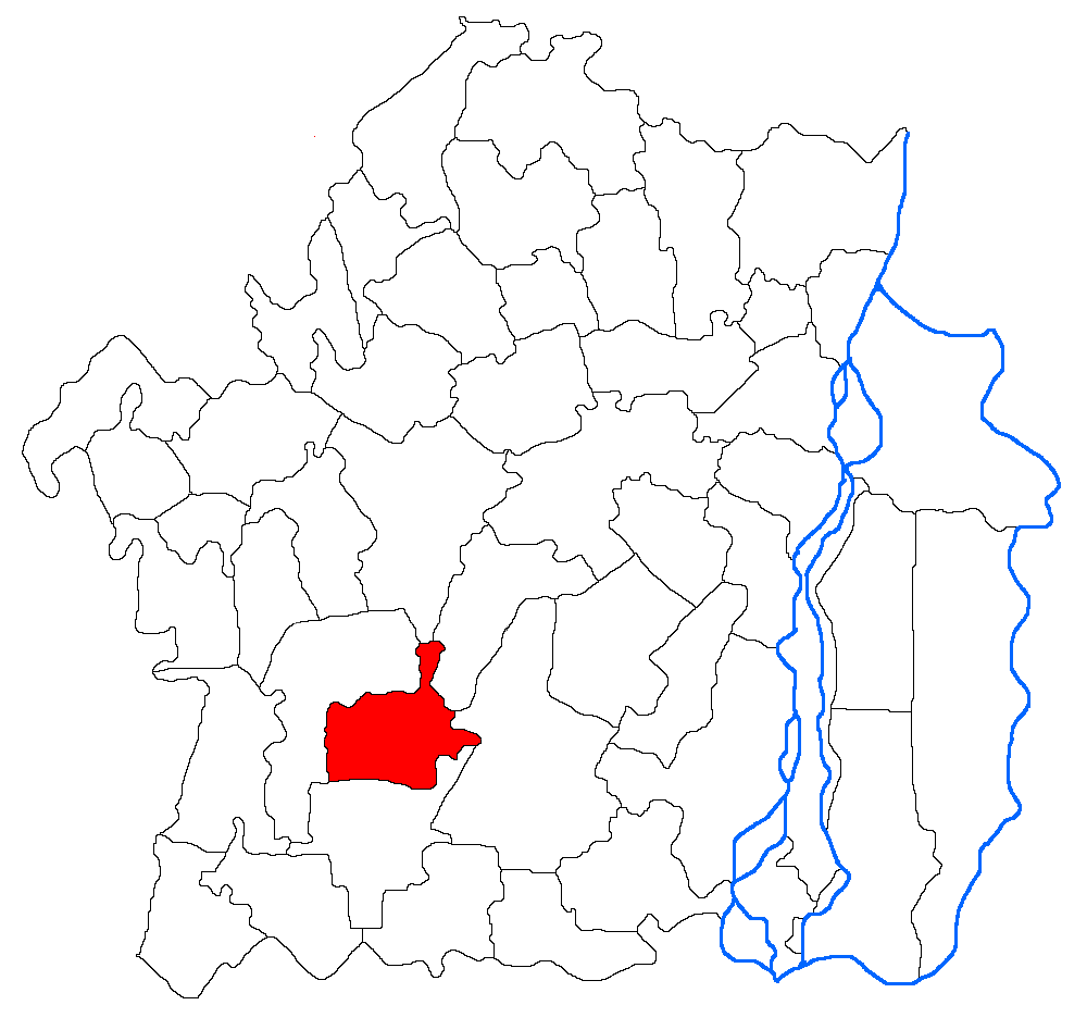 Limits of the commune of Zăvoaia in Brăila County, Romania